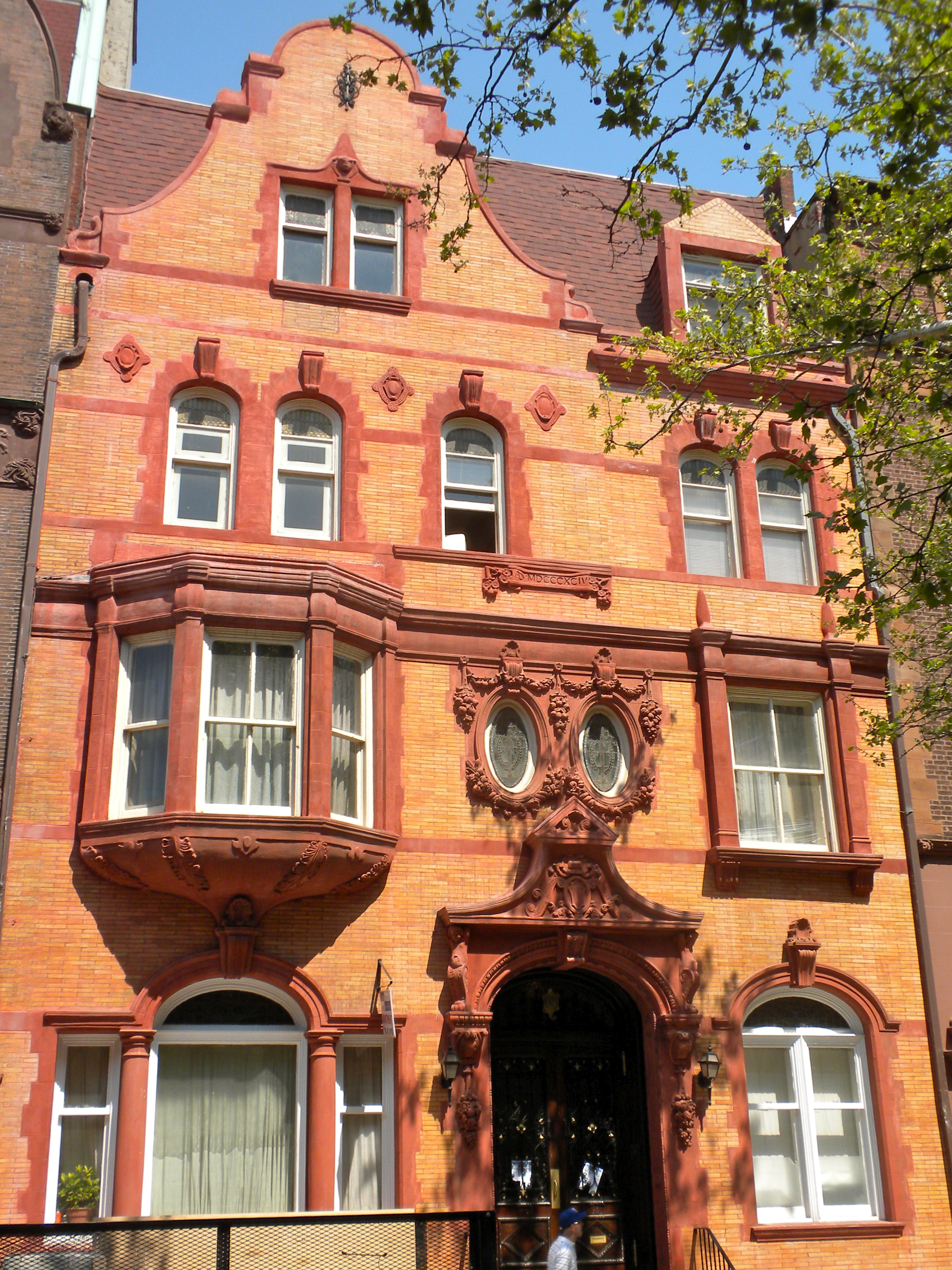 Rafsnyder-Welsh House on the NRHP since February 14, 1980. At 1923 Spruce Street in the Rittenhouse Square East neighborhood of Philadelphia